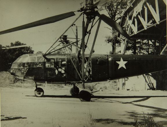 Focke-Achgelis Fa 223 helicopter of the Luftwaffe following capture by the United States Army Air Forces at the end of World War II. Note what appears to be pre-1943 U.S. national insignia, but may be U.S. Army "white star" insignia.